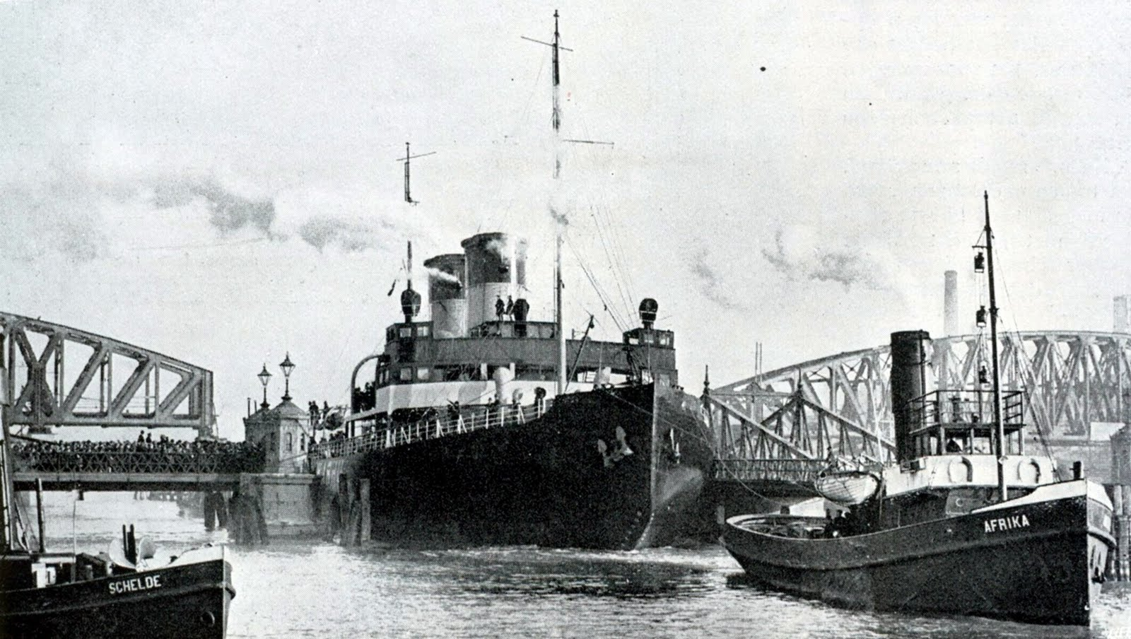 Finnish icebreaker Jääkarhu on trials in the Koningshaven.